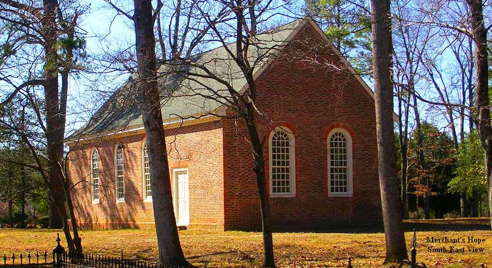 David King